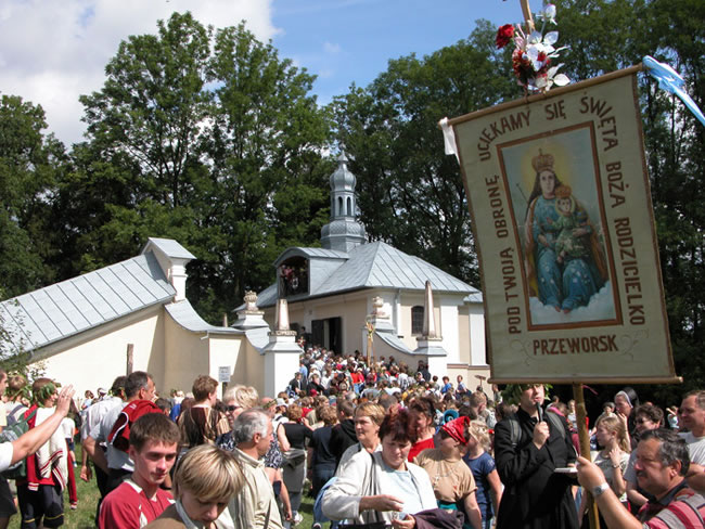 Kalwaria Pacławska Poland